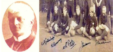 William Leslie Poole (crouched third right)